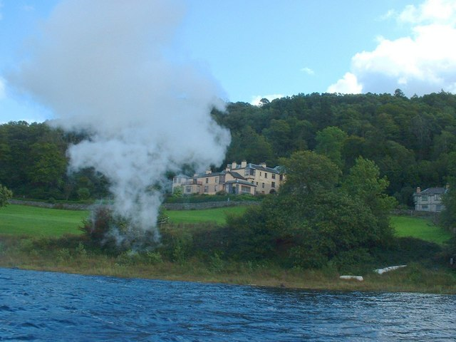 Brantwood on Coniston Water As seen from gondola steam yacht (that provided the smoke), having left the jetty at Brantwood House.